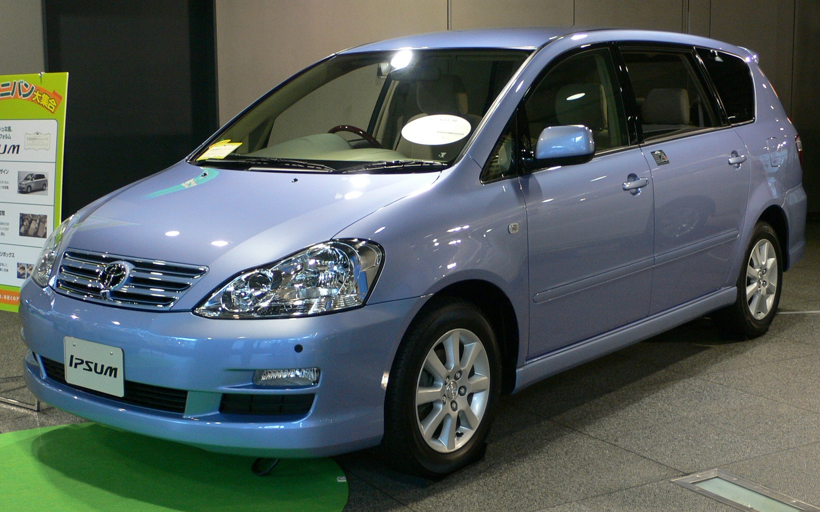 2nd Toyota Ipsum(2003 - ) photographed in Showroom of Toyota-AMLUX